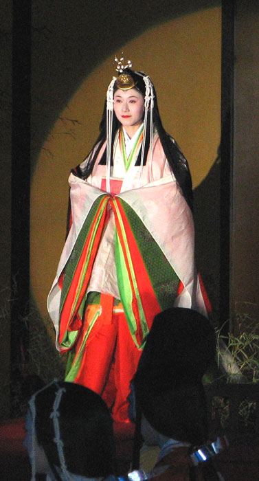 Saiō in Heian Imperial kimono (from 2006 Saiō Matsuri)